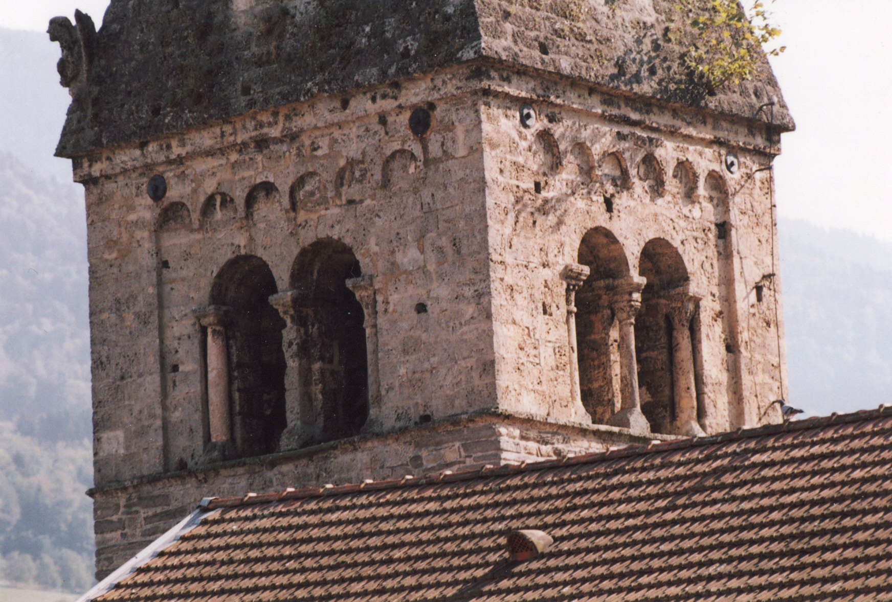 North of the Bell tower (details) geminate window with a gallo-roman column used again on northern side